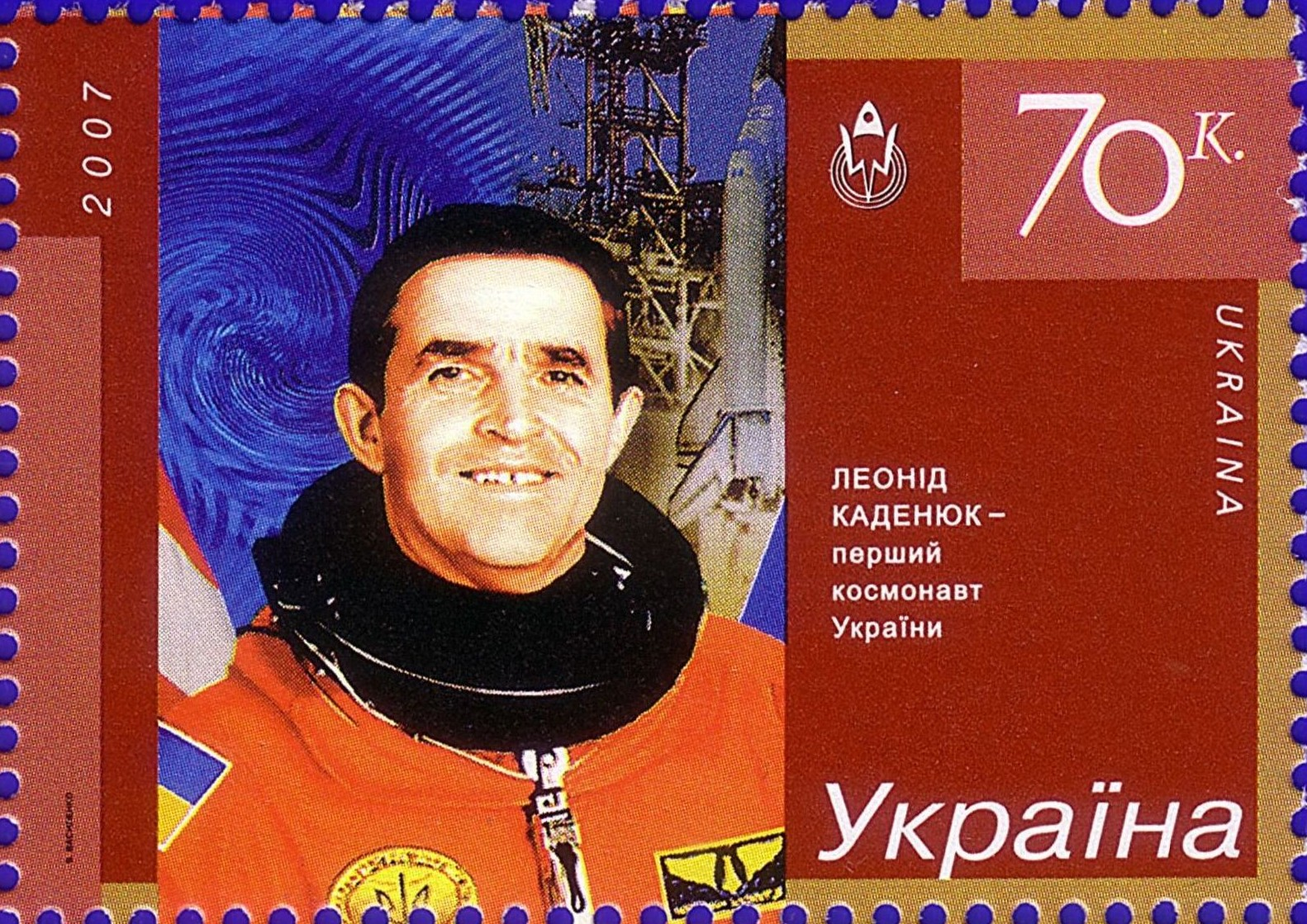 Stamp of Ukraine, 2007. Leonid Kadeniuk